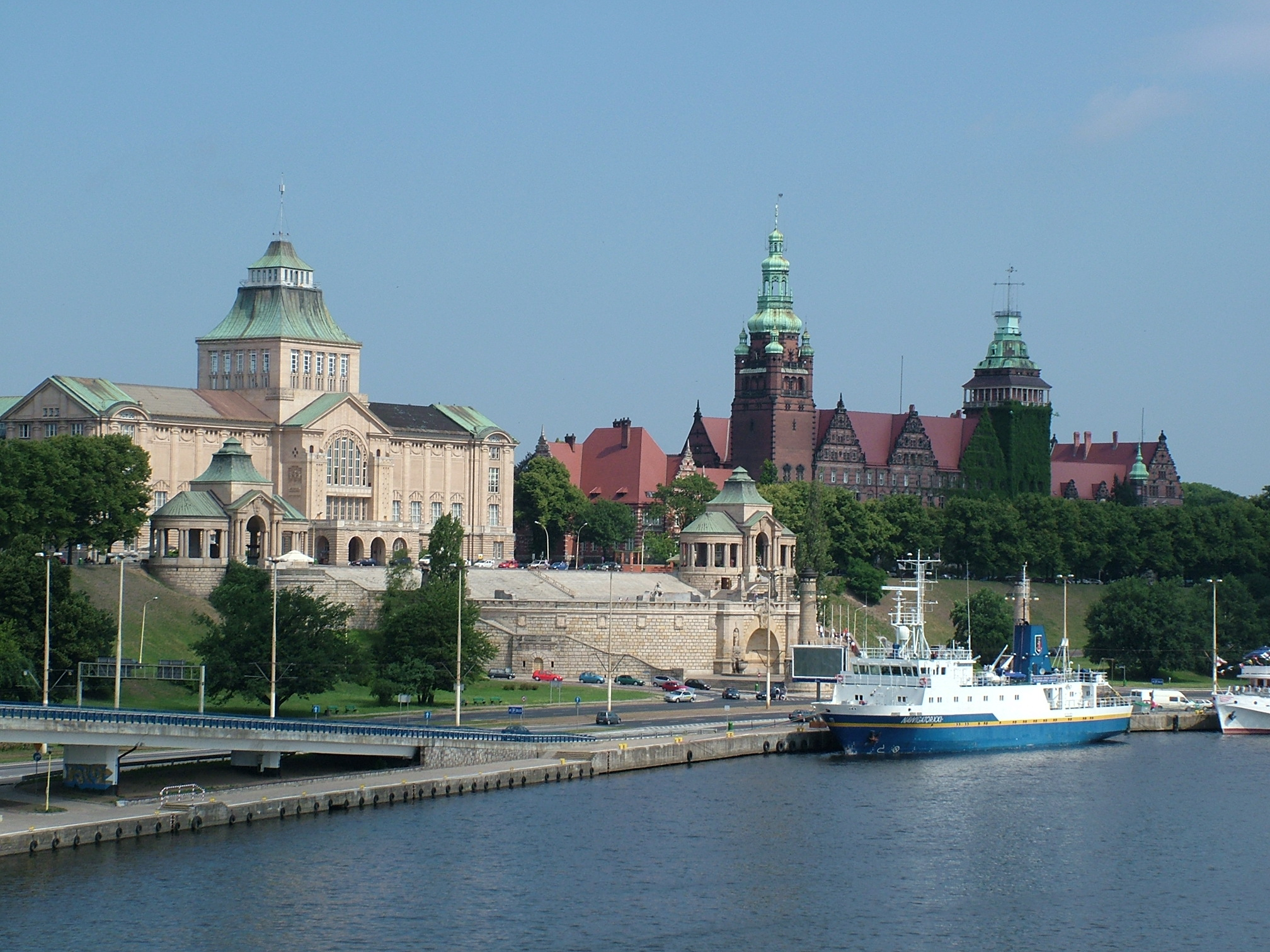 View towards terraces (Wały Chrobrego or Taras Hakena in Polish, Hakenterrasse in German) at the castle route